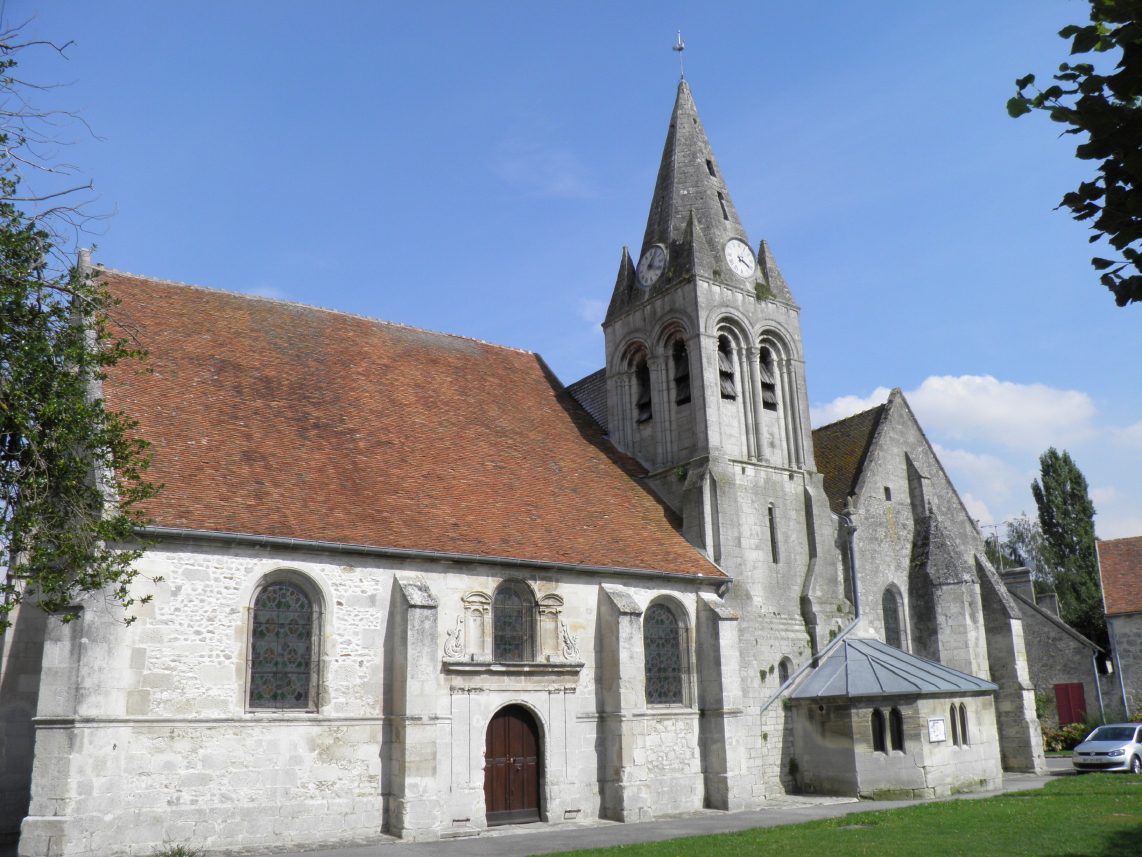 Church Saint-Médard, Villers-Saint-Frambourg, Oise, France.